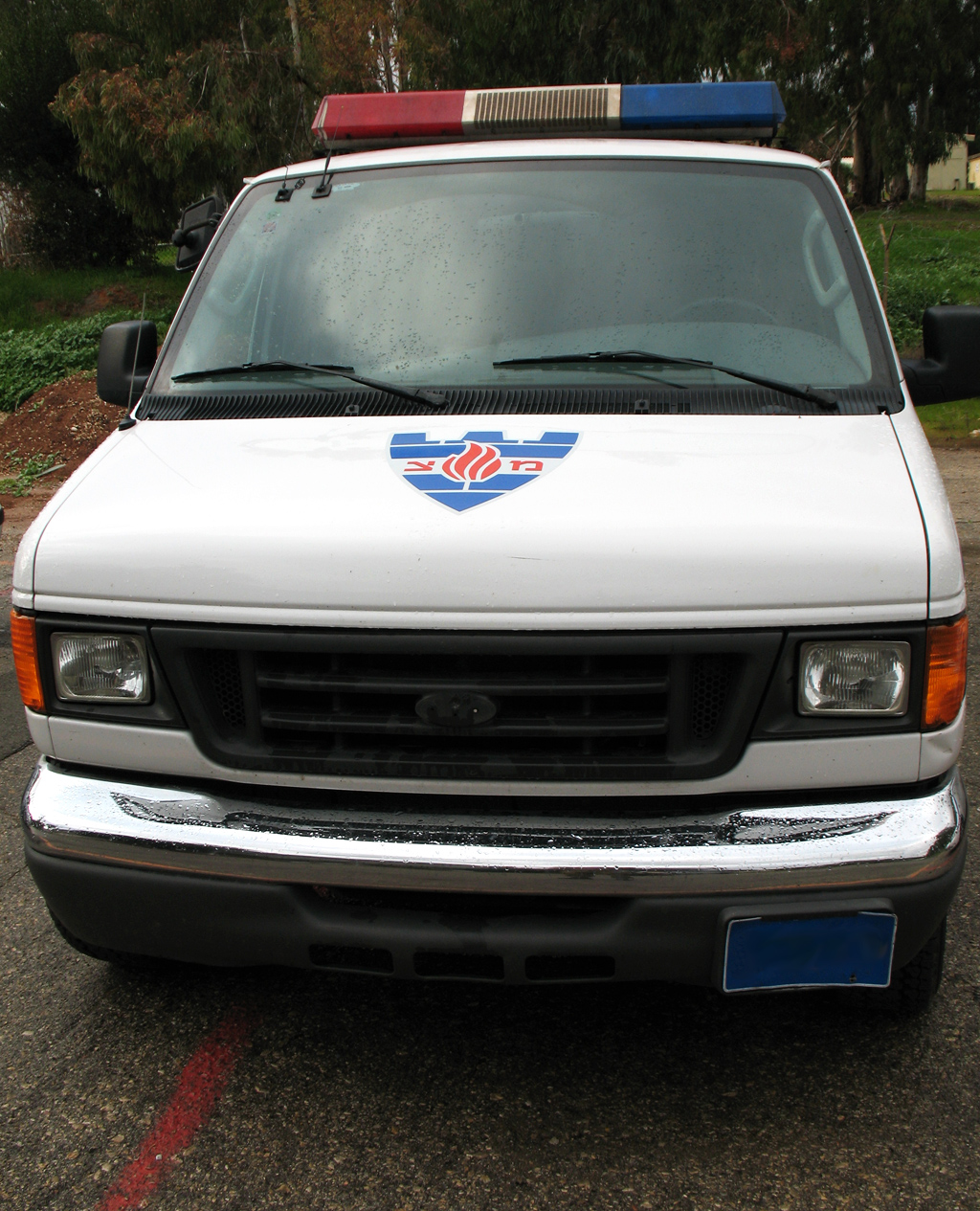 Ford Econoline E350, used by the Military Police Corps (Israel). Note: License plate number has been photoshopped out.